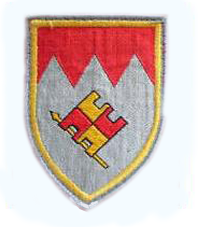 36th Tank Brigade